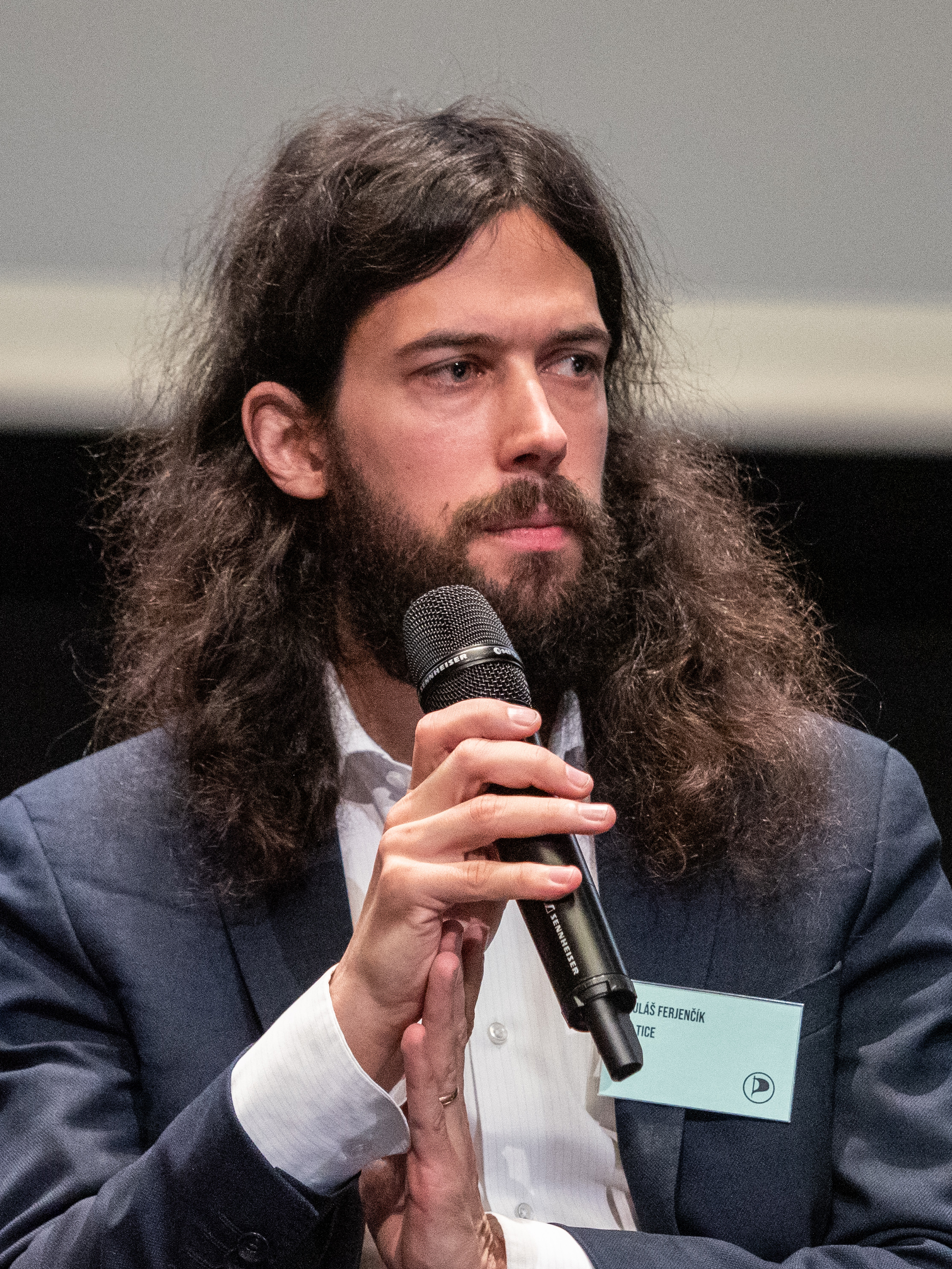 Czech politician Mikuláš Ferjenčík on 11 January 2020